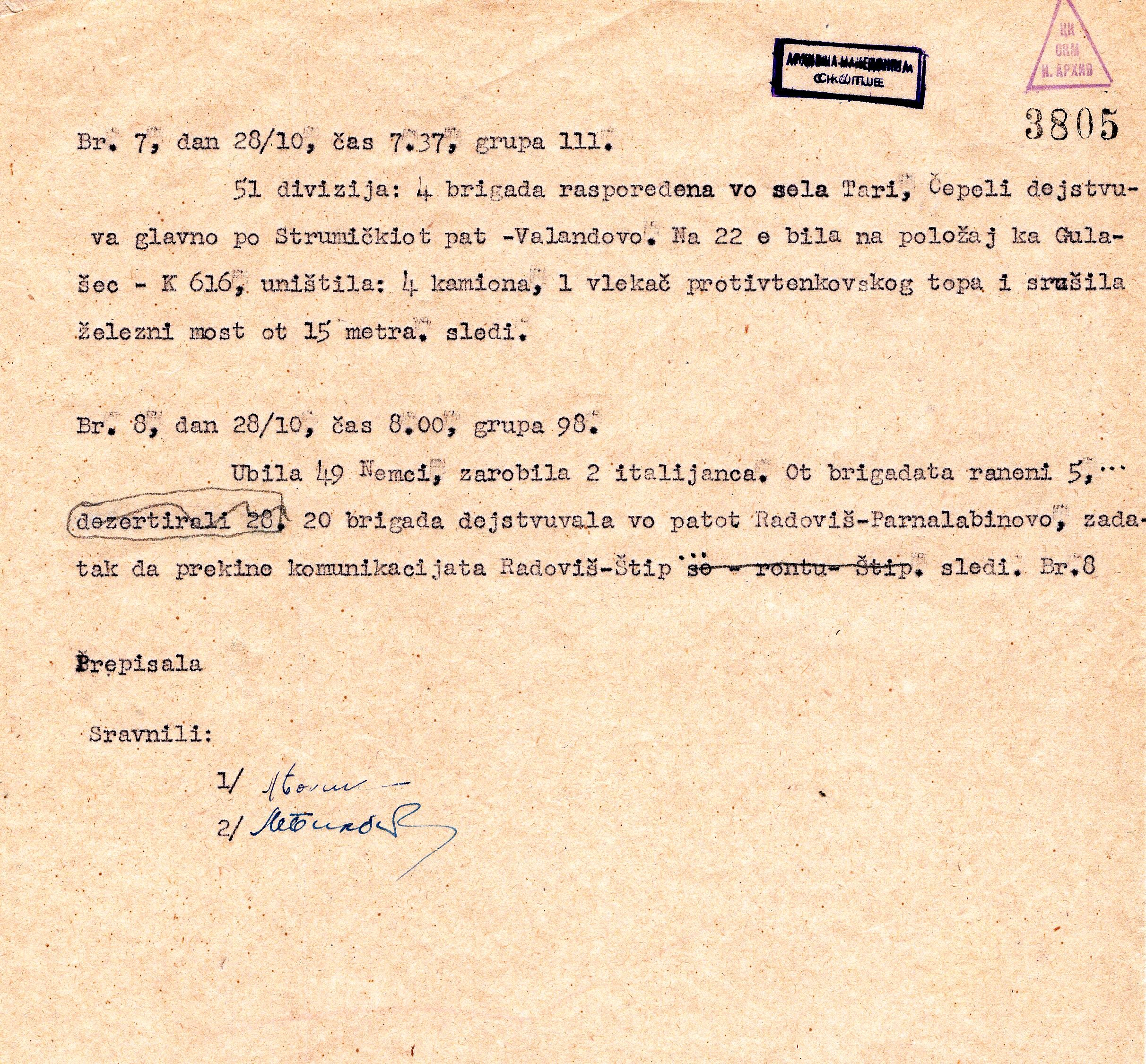 A report from the 51 division for the situations of the battles (28 October 1944). This media file is produced by Wikipedian in Residence in Category:Wikipedian in Residence at DARM in 2017.